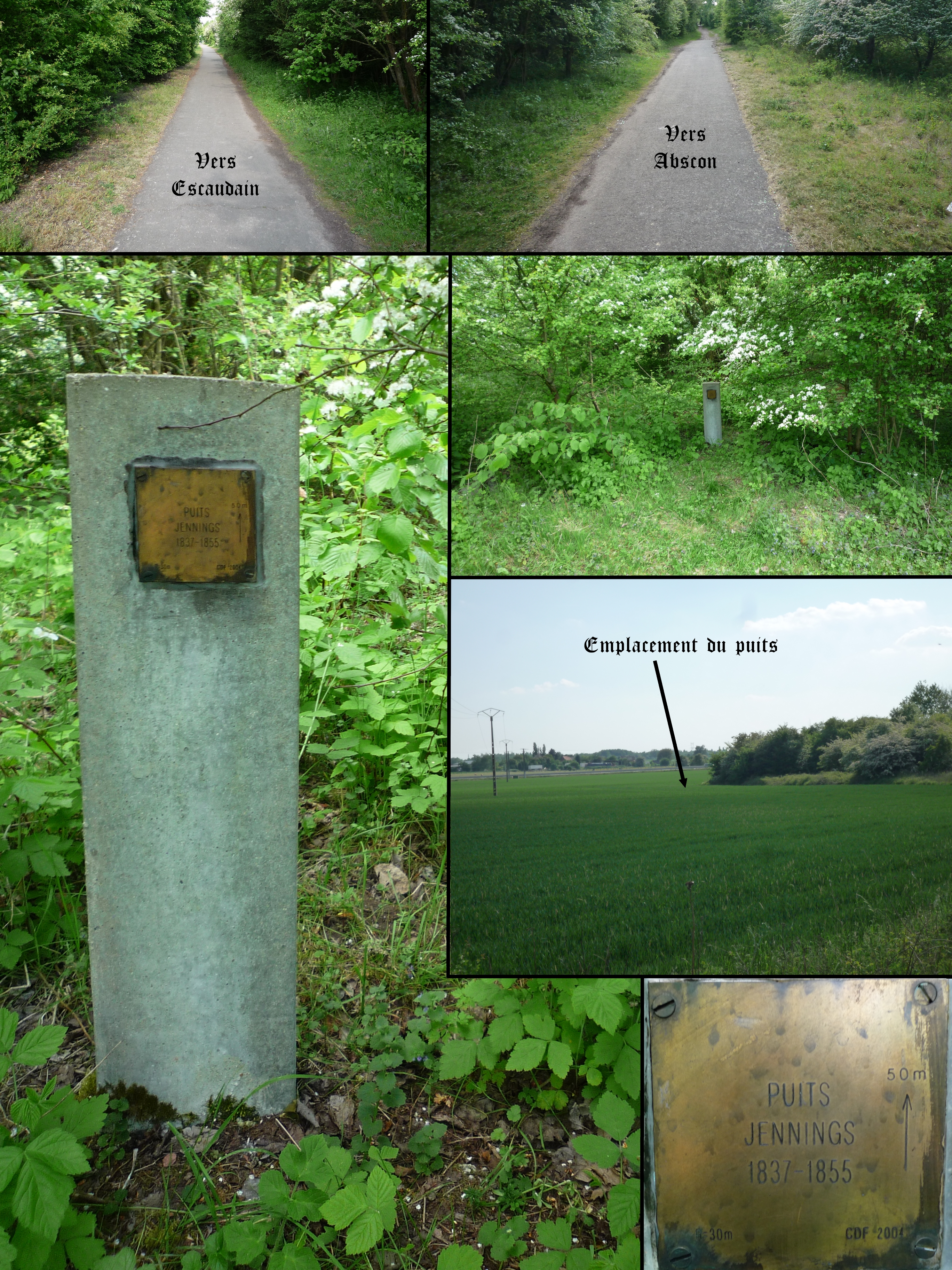 Pit Jennings